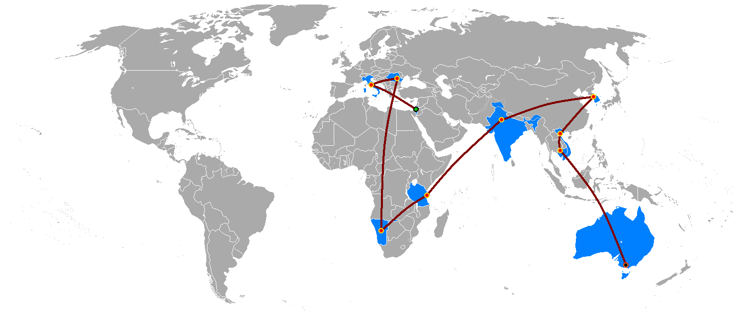 The route map of HaMerotz LaMillion 5